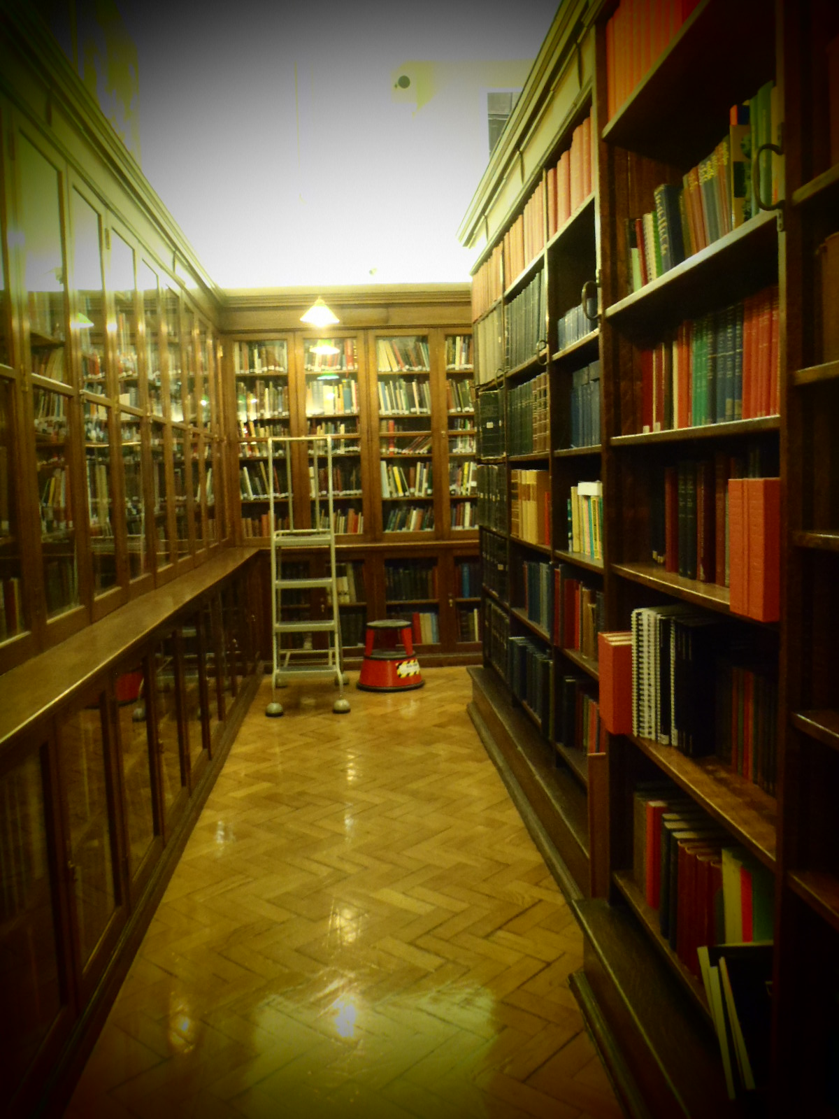 Bishopsgate Library in the city of london